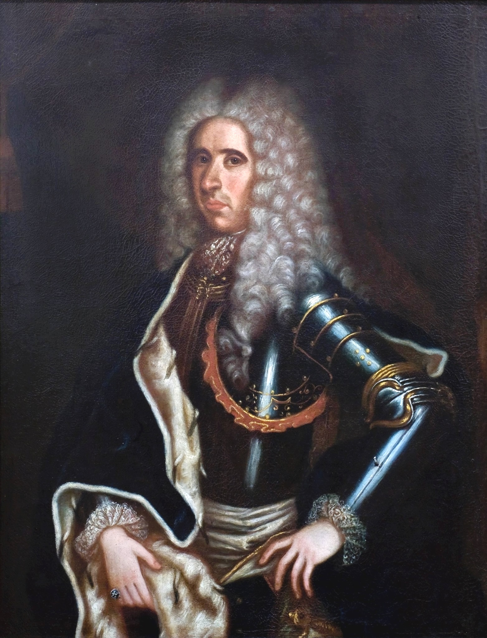 Portrait of Antonio Ferrante Gonzaga, Duke of Guastalla (1687-1729)